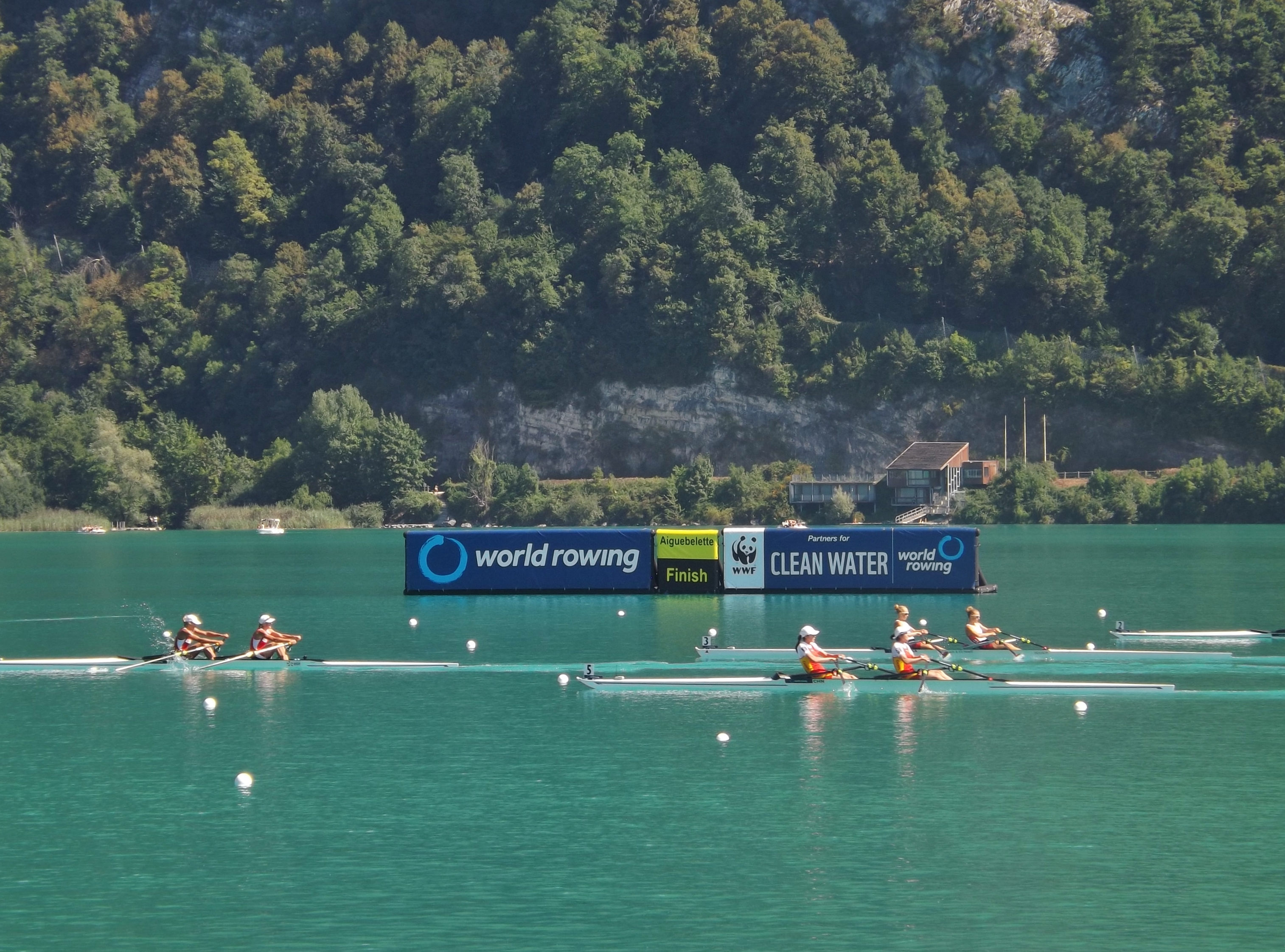 Lightweight Woman Double Sculls, Heat 3 – Poland (left), China (right, foreground), USA (right, background) on the finish line. First day of the 2015 World Rowing Championships, at the lac d'Aiguebelette, in Savoie, France.